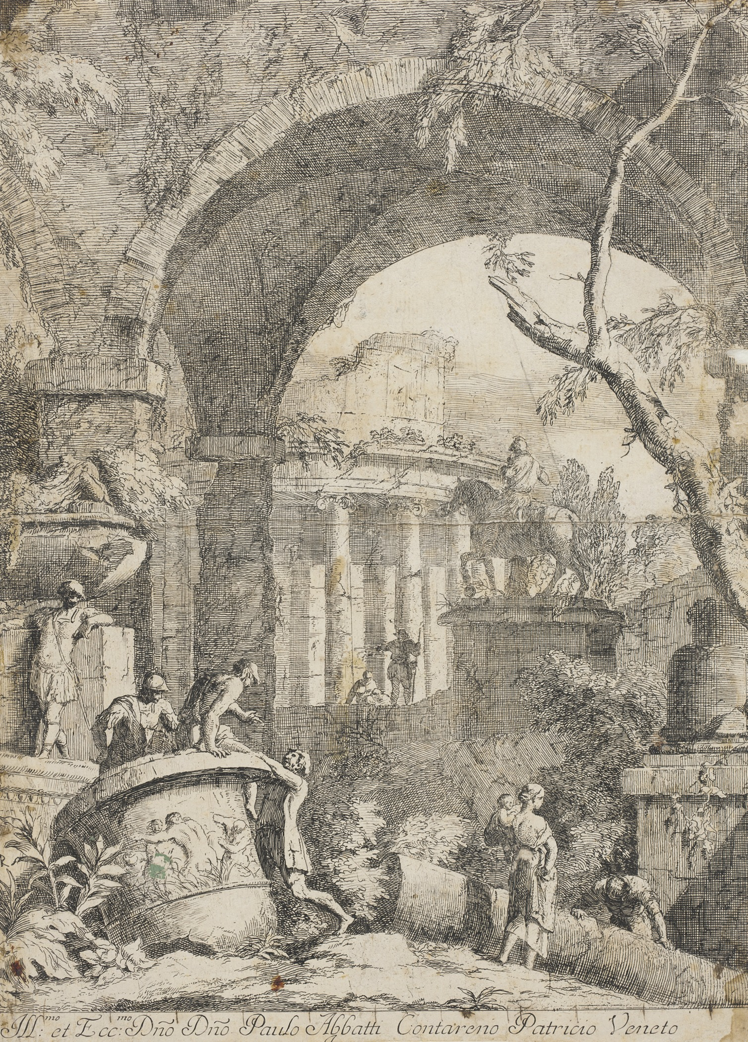 Italy, 1730 Prints; etchings Etching Gift of Mrs. Mary B. Regan (31.21.143) Prints and Drawings